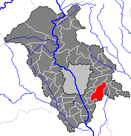 This map shows the area of the Gemeinde (municipality) Vasoldsberg in the Bezirk (district) Graz-Umgebung, Styria, Austria.